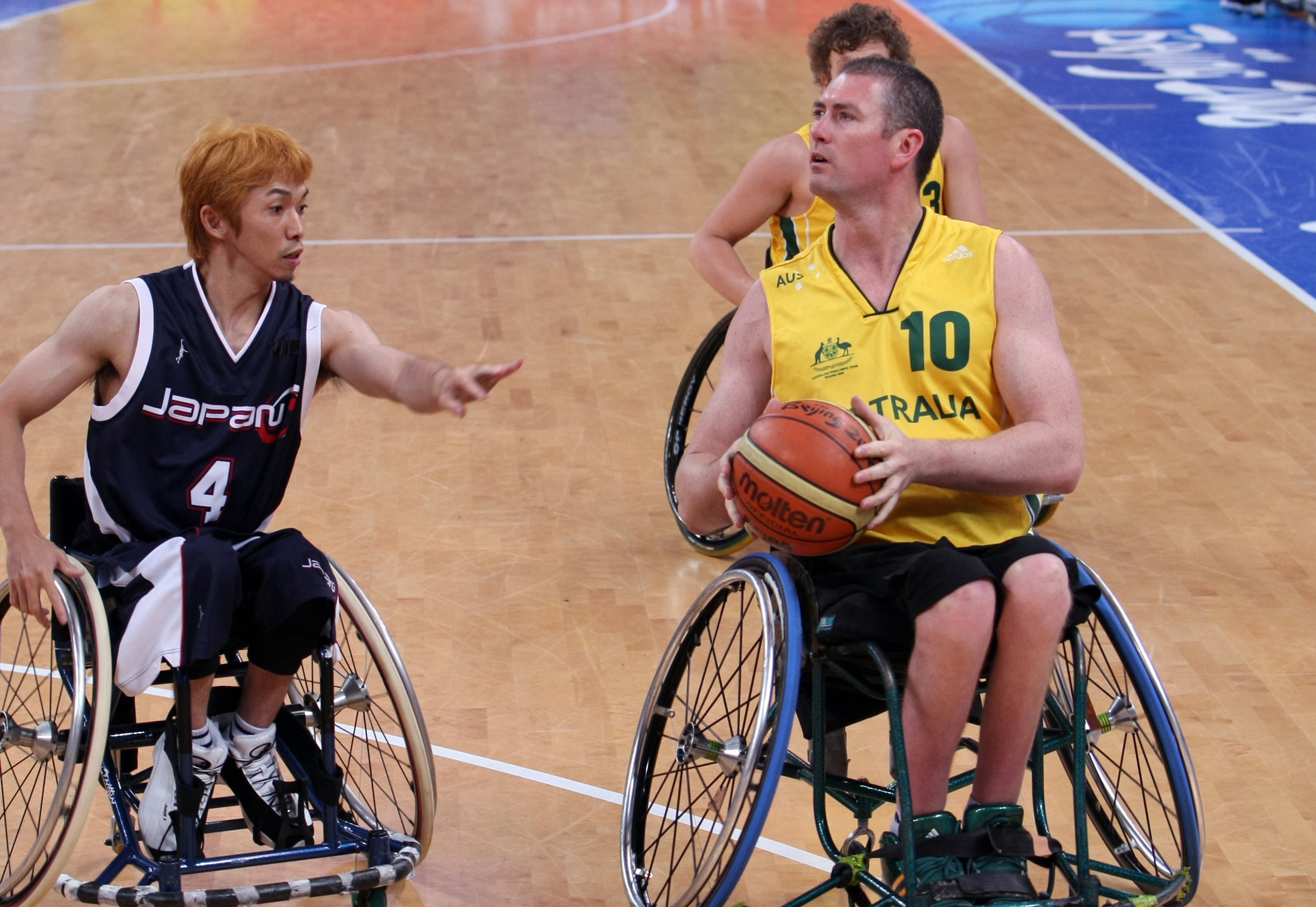 Australian wheelchair basketballer Adrian King readies to shoot the ball during the game against Japan at the Beijing 2008 Paralympic Games. Fumiharu Miura defends.